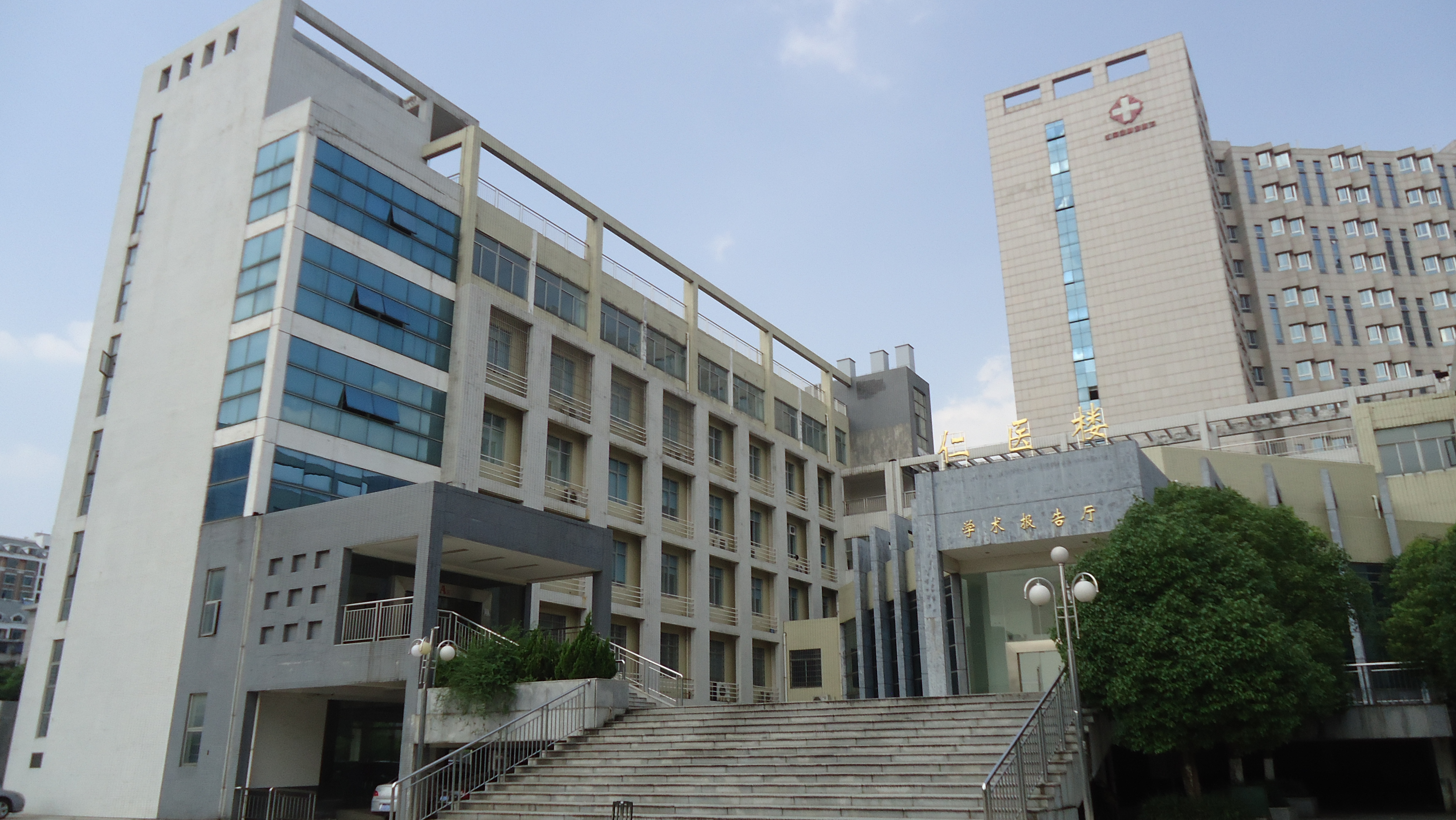 Hunan Normal University,founded in 1938, is a higher education institution located in Changsha, Hunan Province, People's Republic of China. The University is a national 211 Project university, one of the country's 100 key universities in the 21st century that enjoy priority in obtaining national funds.